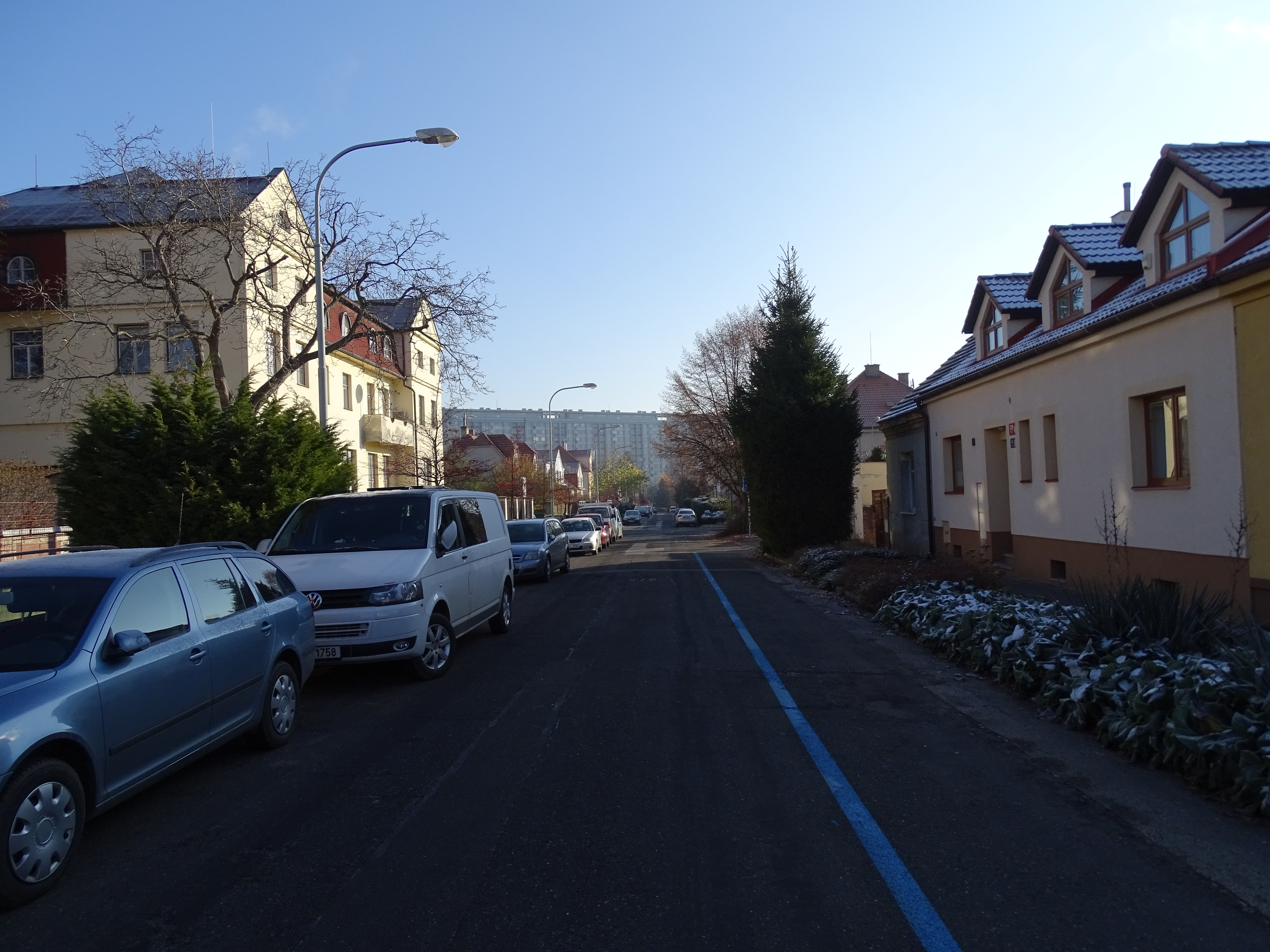 Prague-Kobylisy, Czechia. Veltěžská street.